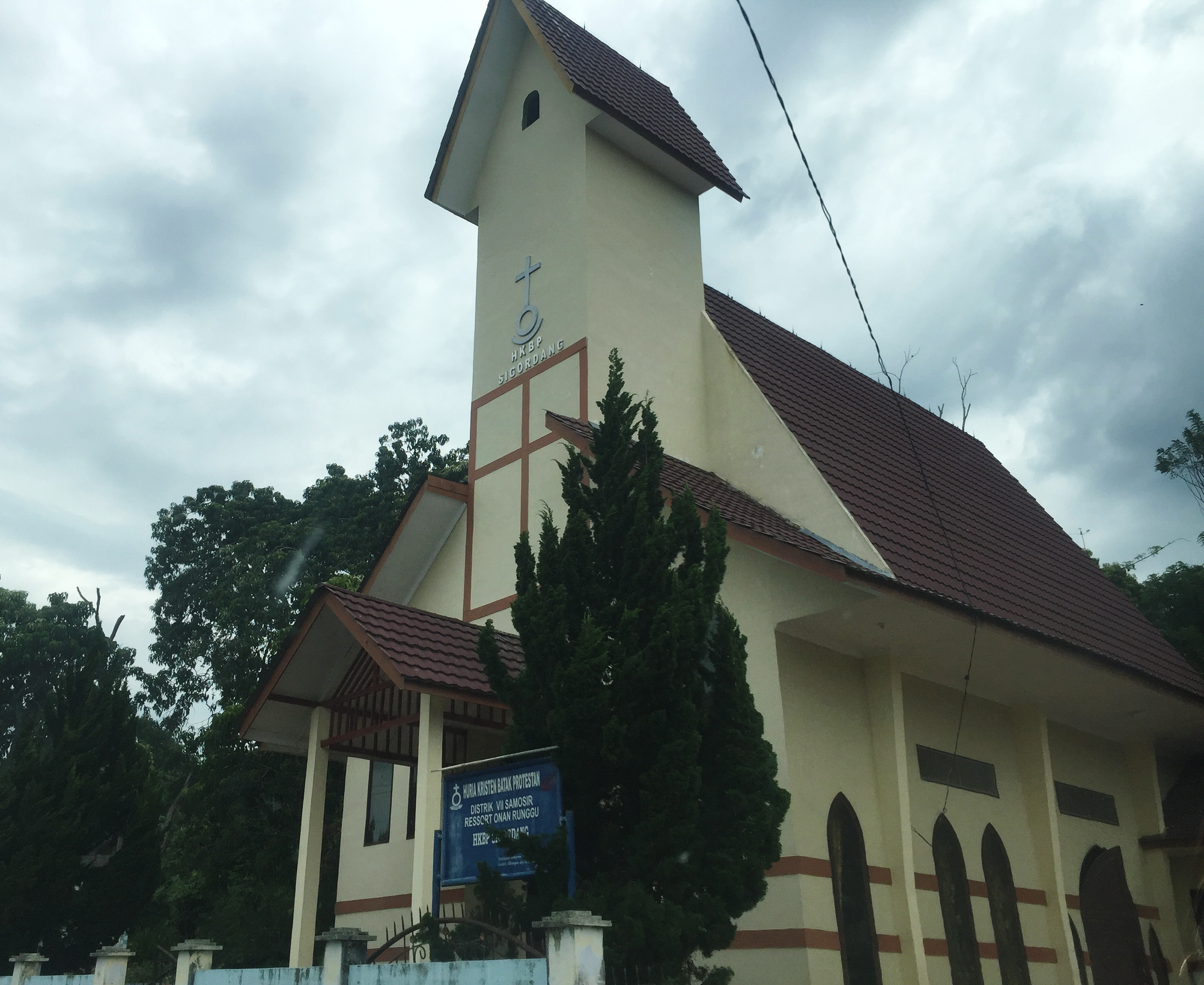 HKBP Sigordang, Church in Onan Runggu, Samosir